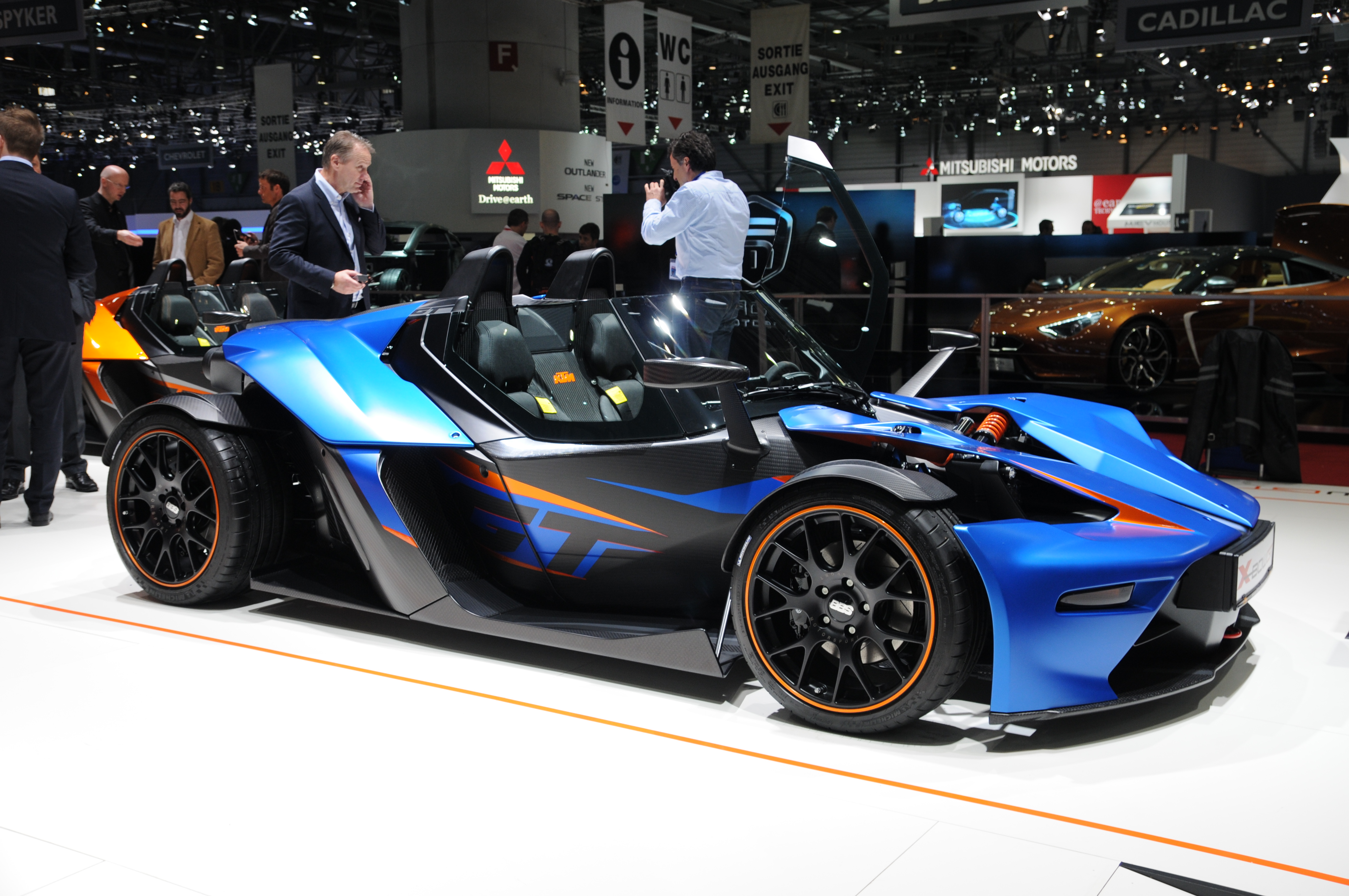 Geneva Motor Show 2013 (photos taken on the first press day)